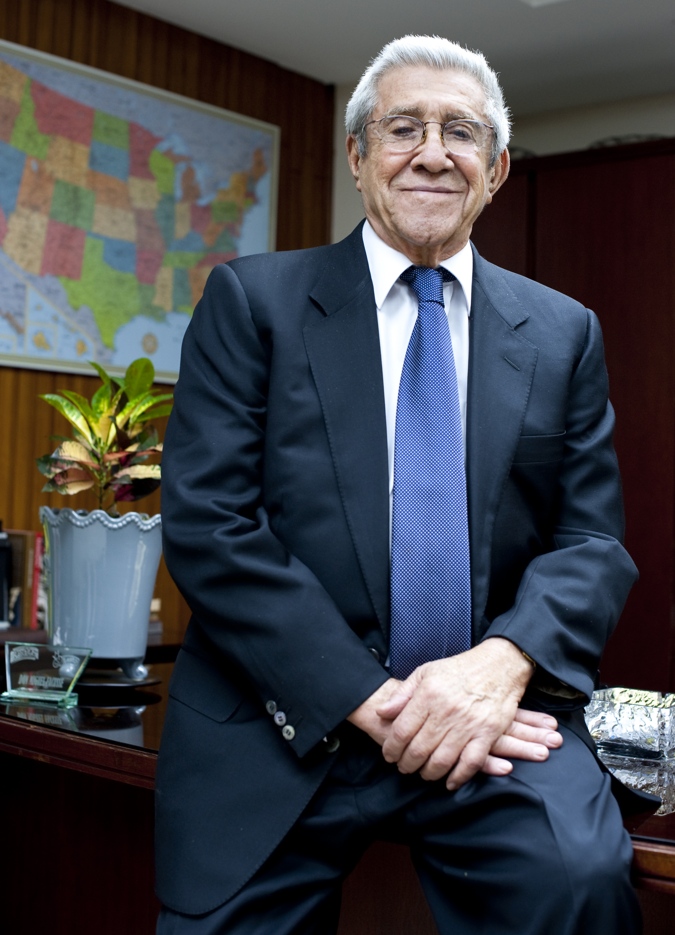 Miguel Facusse, Executive President, Corporacion Dinant